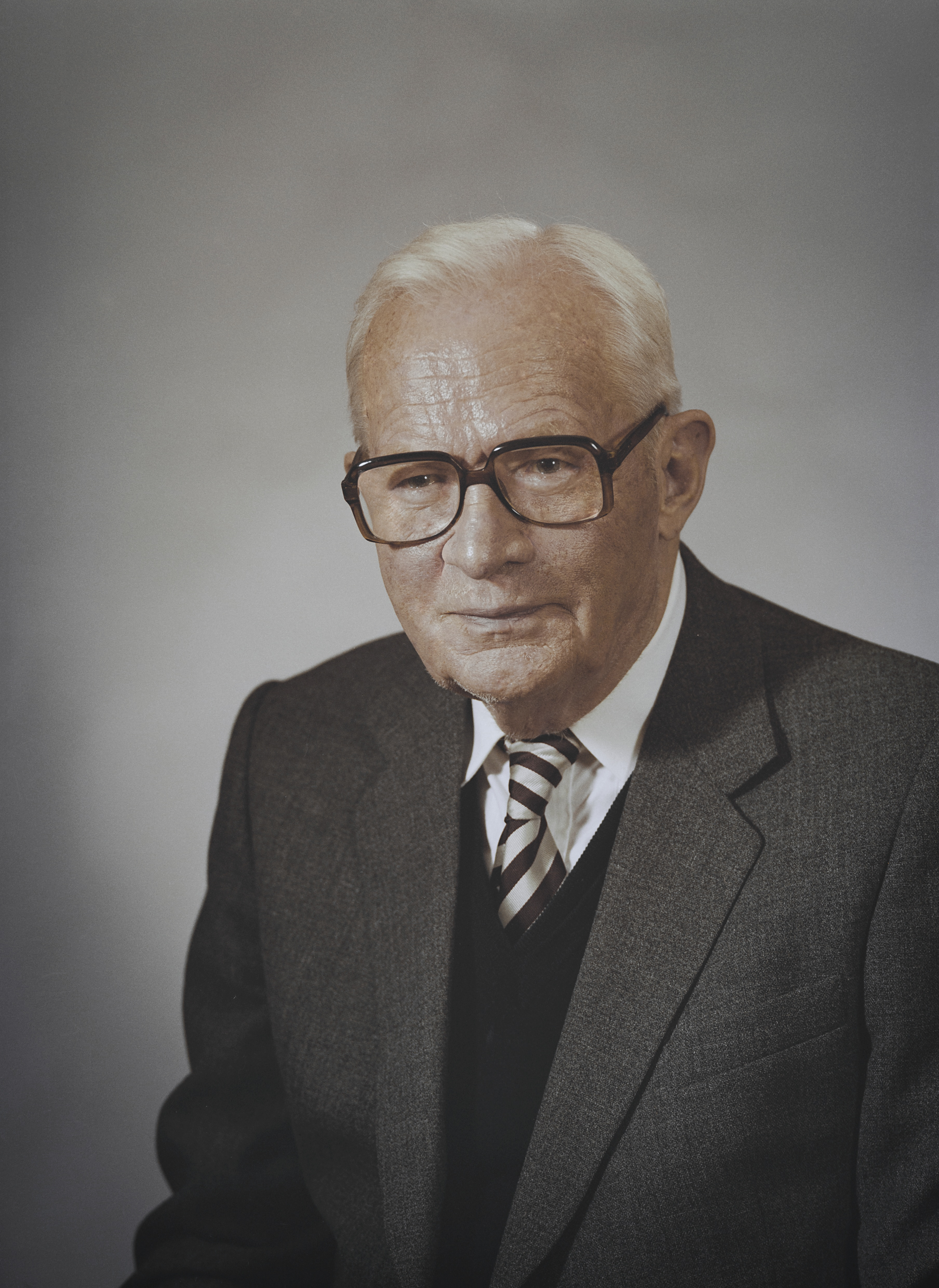 Photograph of the Finnish diplomat Heikki Leppo (1906–1987).